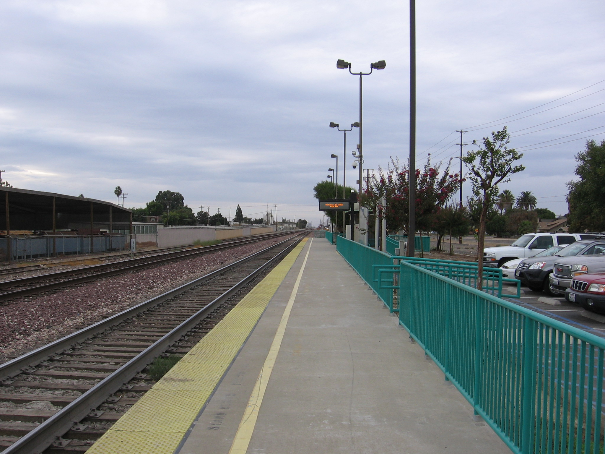 The Turlock/Denair (Amtrak station) in Denair, California, USA.